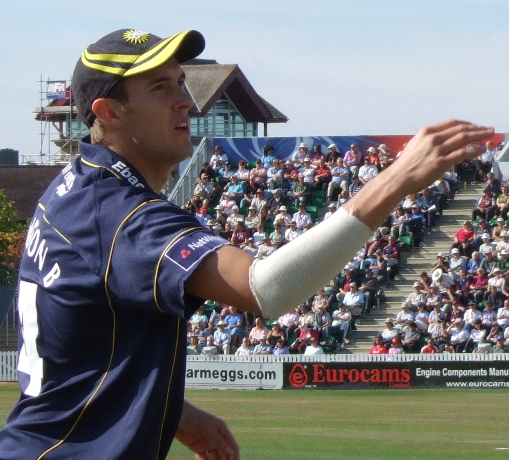 Ben Harmison throwing a drinks bottle back off the field during play against Somerset at Taunton.